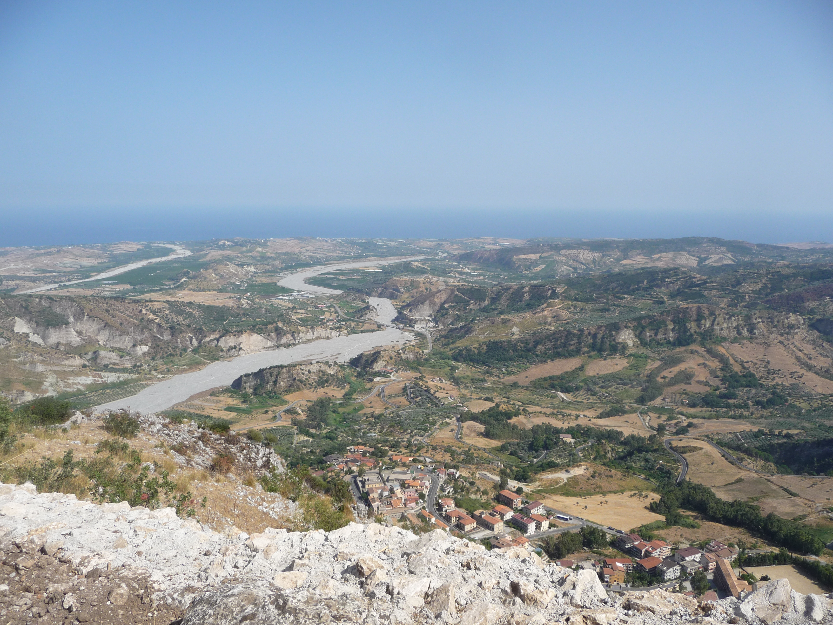 river Stilaro in 2010